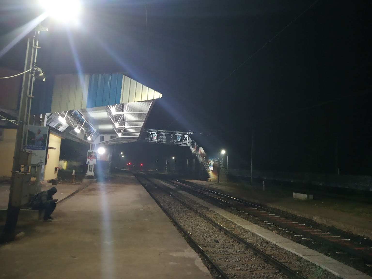 This is the Picture of Humma railway station